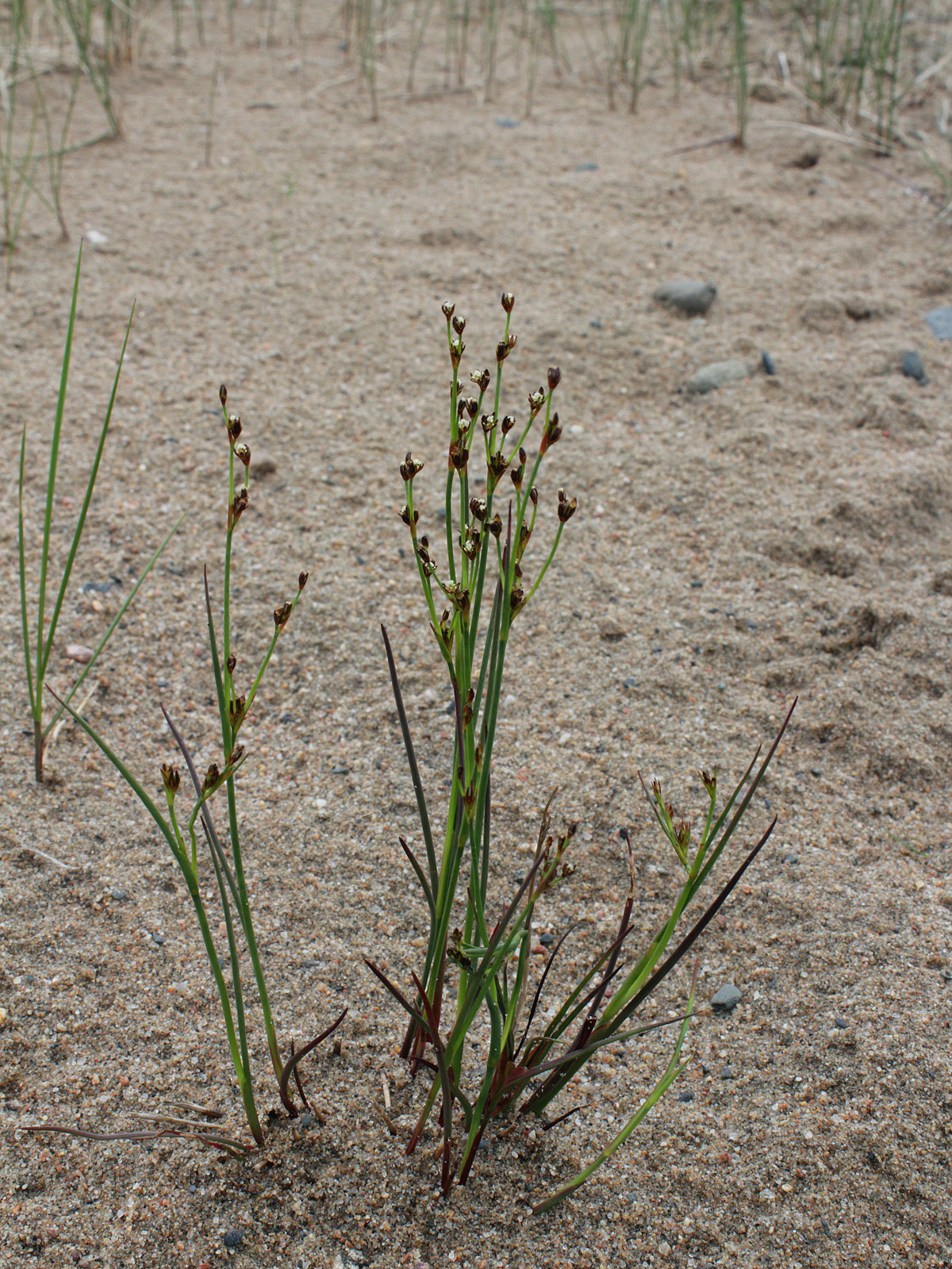 Juncaceae, Juncus gerardii